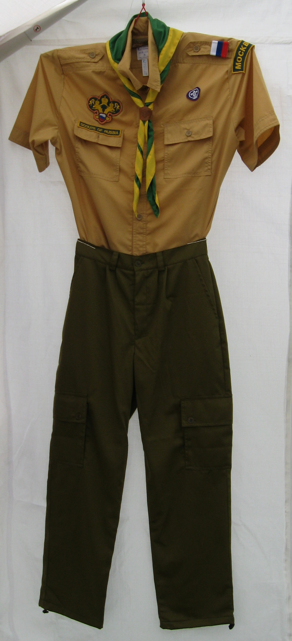 Russian Scout uniform on exhibition during the 21st World Scout Jamboree 2007